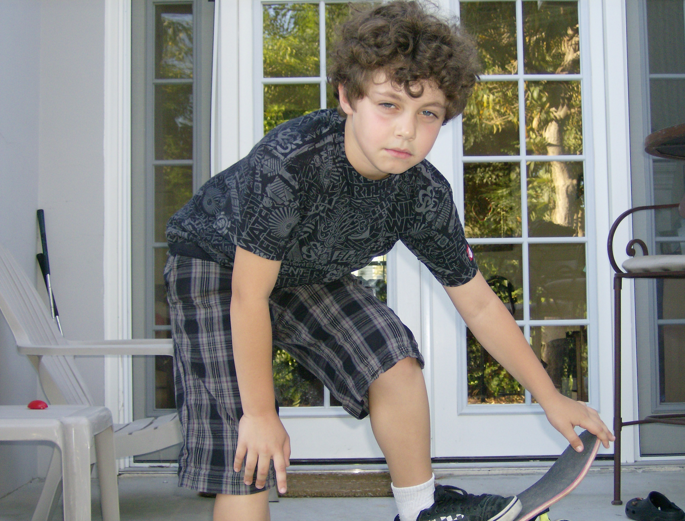 A kid modeling Element!